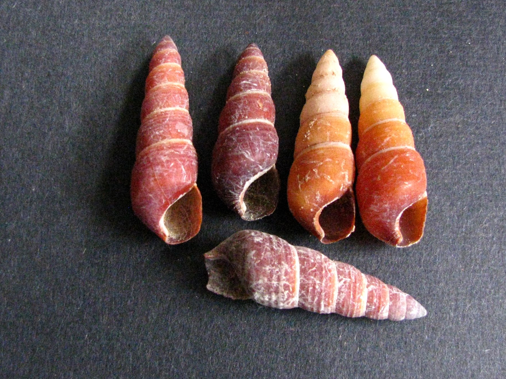 Amastridae Endemic to the Hawaiian Islands; Extinct Collected at ʻAnini, n.w. Kauaʻi in alluvial wash deposits There are over twenty species of these endemic land snails